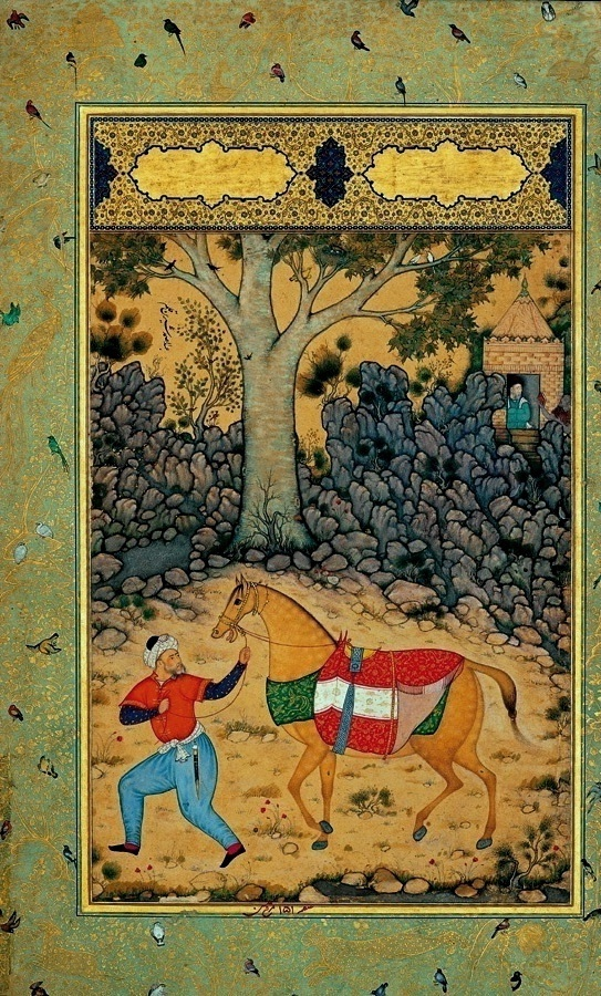 Abd as-Samad. Horse and Groom. 1557. Tehran, Goulistan Palace